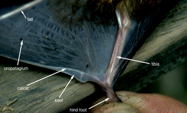 A picture illustrating the interfemoral membrane and the position of the calcar on a bat